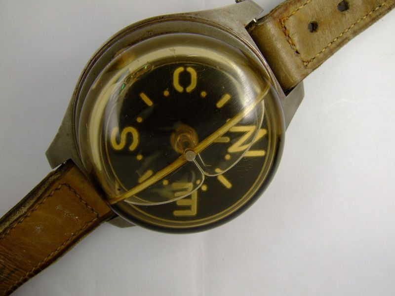 This work is free and may be used by anyone for any purpose. If you wish to use this content, you do not need to request permission as long as you follow any licensing requirements mentioned on this page.